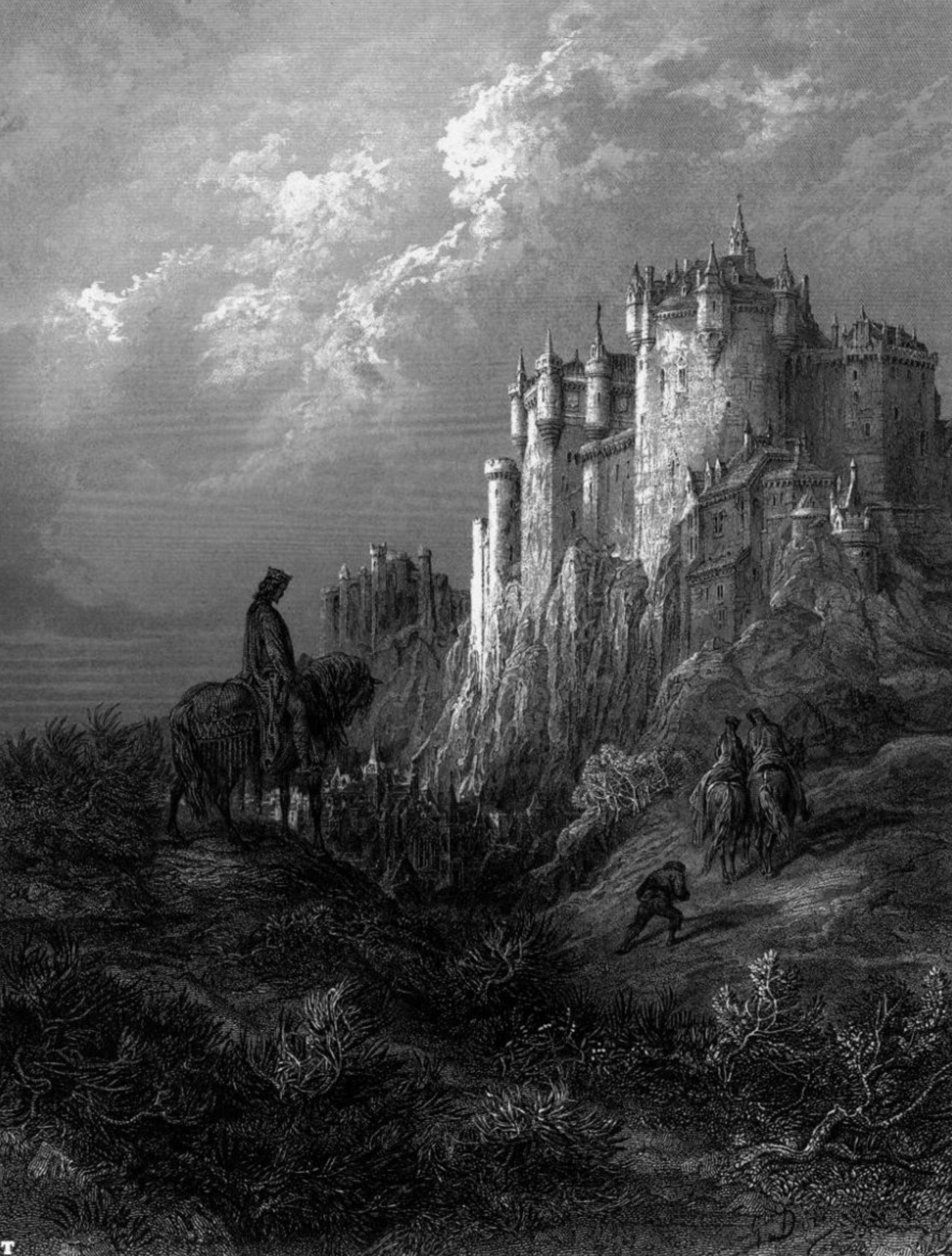 Plate III. "Edyrn with His Lady and Dwarf Journey to Arthur's Court"